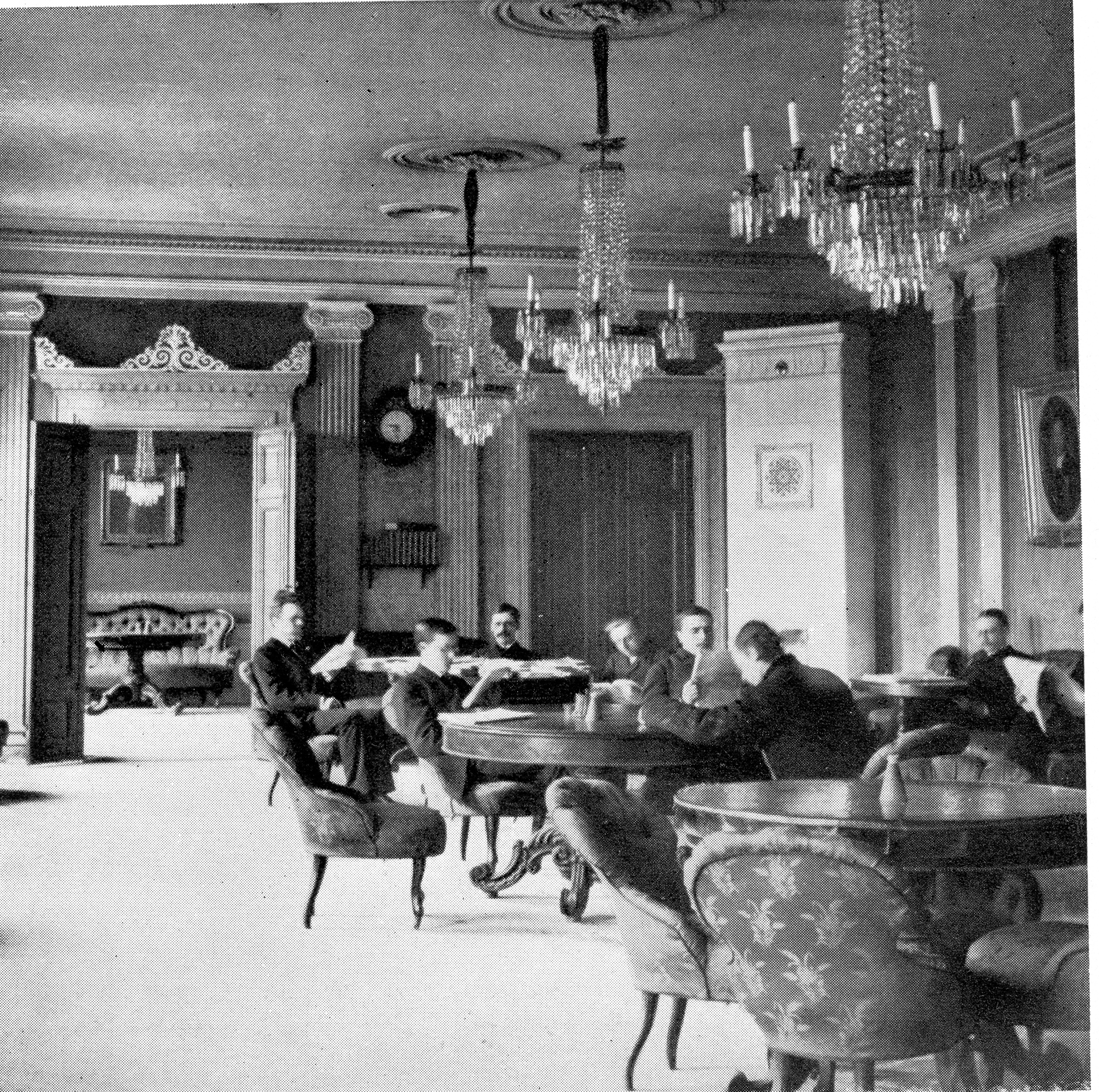 Stockholms Nation, Uppsala. Nation hall early 1880s.